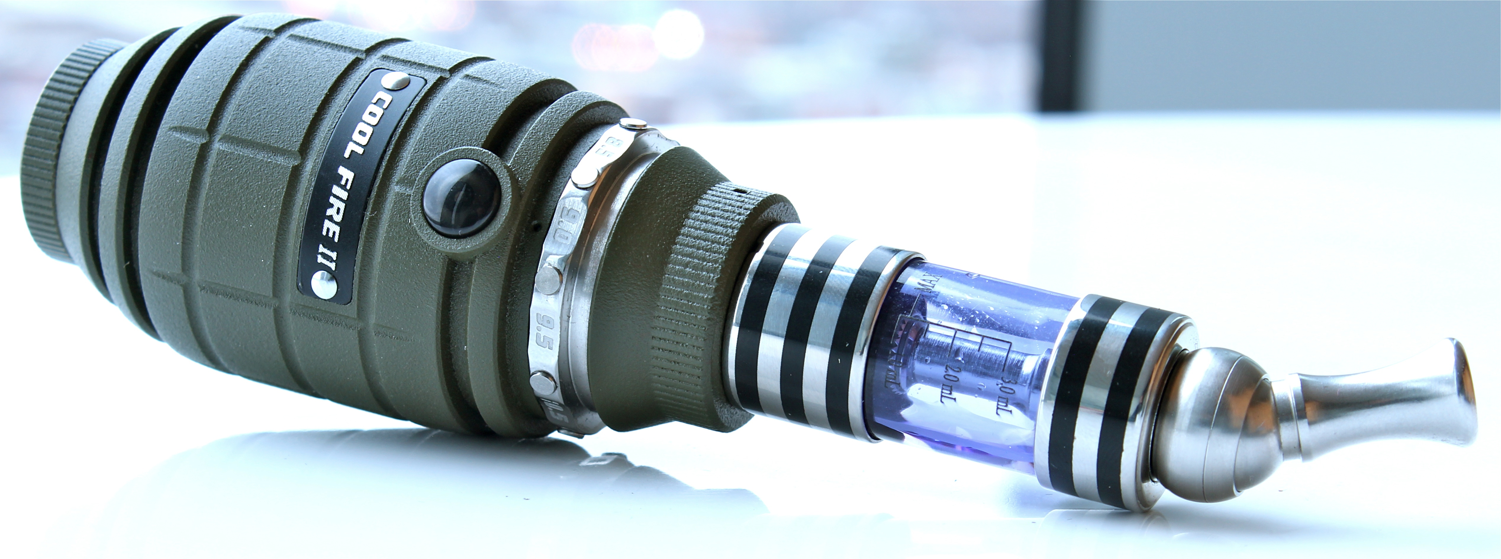 This image is released under Creative Commons. If used, . Innokin Cool Fire 2 APV. For more info see our first impressions of the Cool Fire 2